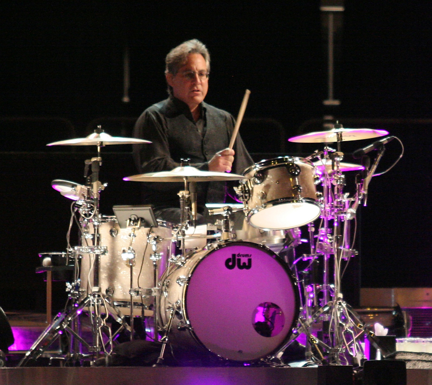 Max Weinberg, American drummer, in concert (with Bruce Springsteen, cropped out)